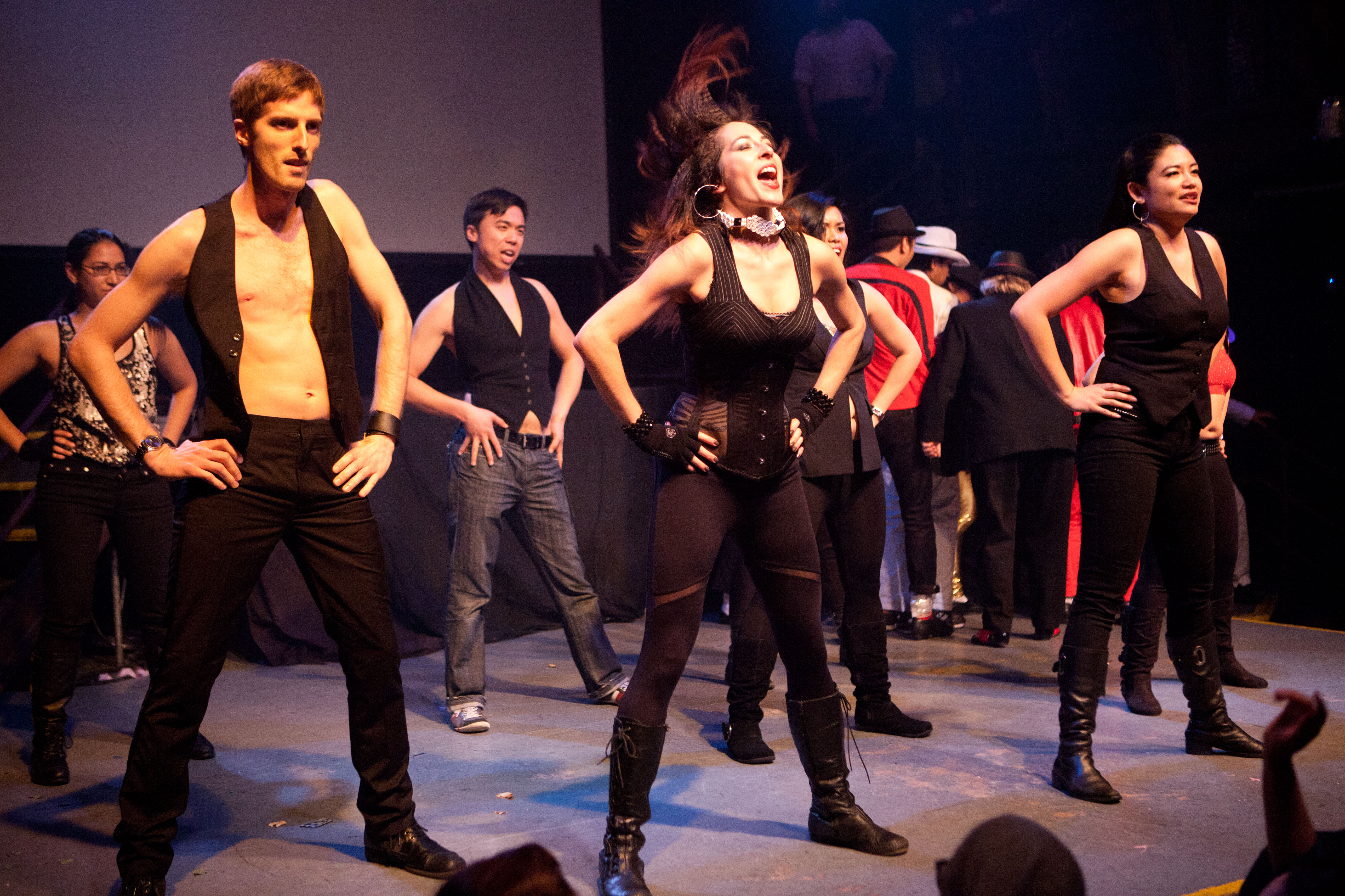 Janet Jackson dance tribute